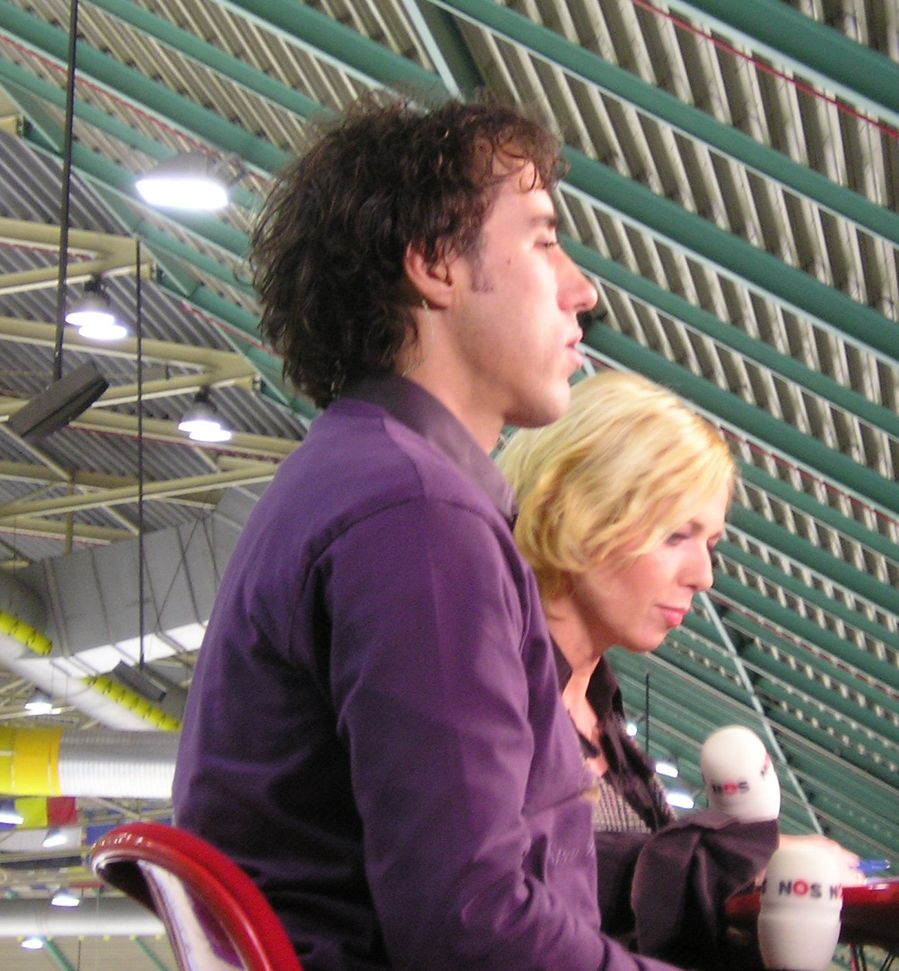 Bart Veldkamp (BEL) at work as analyst at a World Cup in Thialf (Heerenveen, The Netherlands)